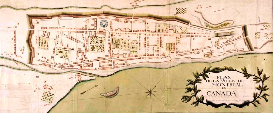 Map of Montréal 1749 This image is available from Library and Archives Canada This tag does not indicate the copyright status of the attached work. A normal copyright tag is still required. See Commons:Licensing for more information. Library and Archives Canada does not allow free use of its copyrighted works. See Category:Images from Library and Archives Canada.